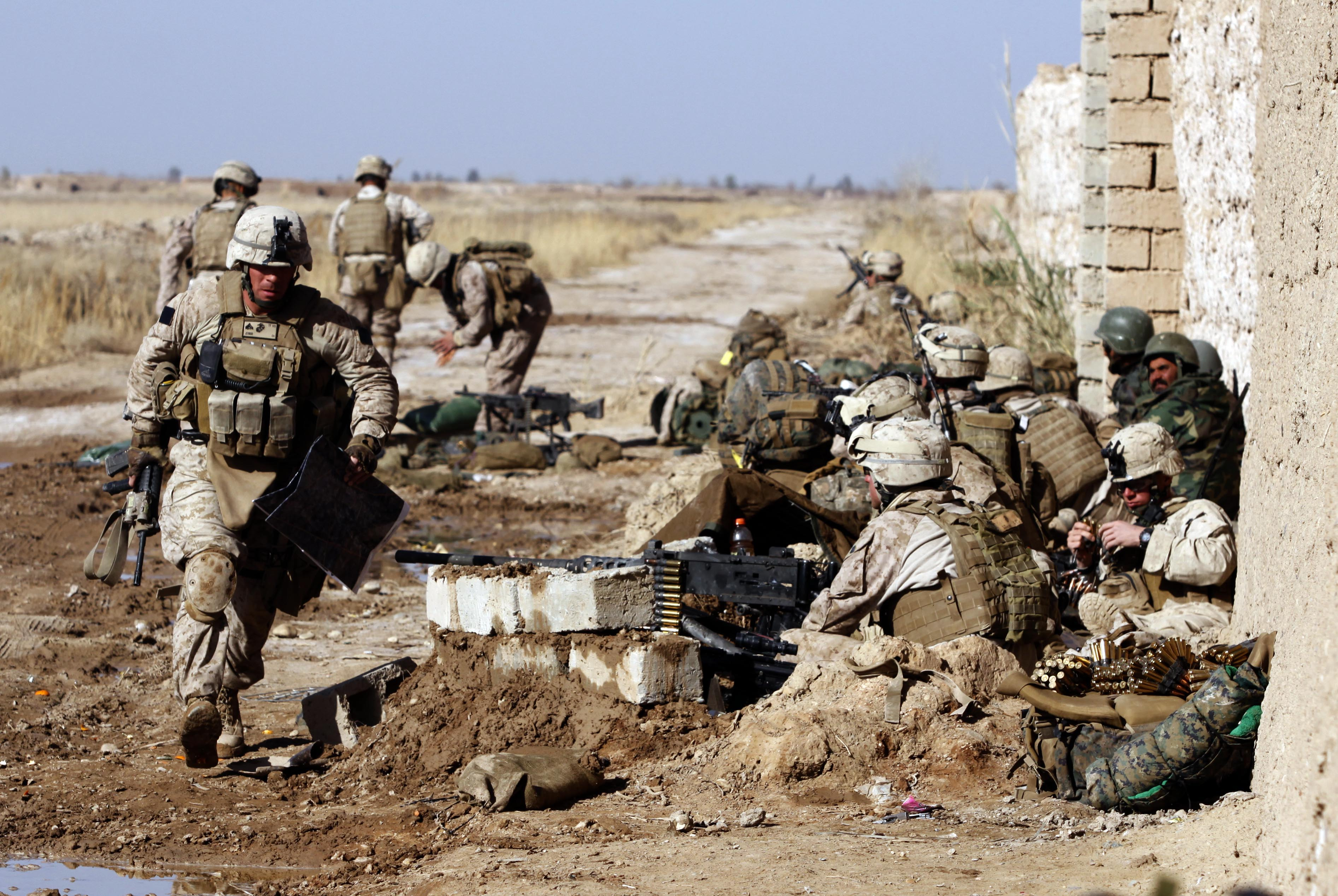 HELMAND PROVINCE, Islamic Republic of Afghanistan – A Marine with Weapons Platoon, Charlie Company, 1st Battalion, 3rd Marine Regiment, sprints down the line of heavy machine guns to deliver a map after a firefight with Taliban insurgents Feb. 9 at the “Five Points” intersection, a key junction of roads linking the northern area of the insurgent stronghold of Marjeh with the rest of Helmand province. Marines of Charlie Co. conducted a helicopter-borne assault earlier that morning to seize the area. (Official Marine Corps photo by Sgt. Brian A. Tuthill)